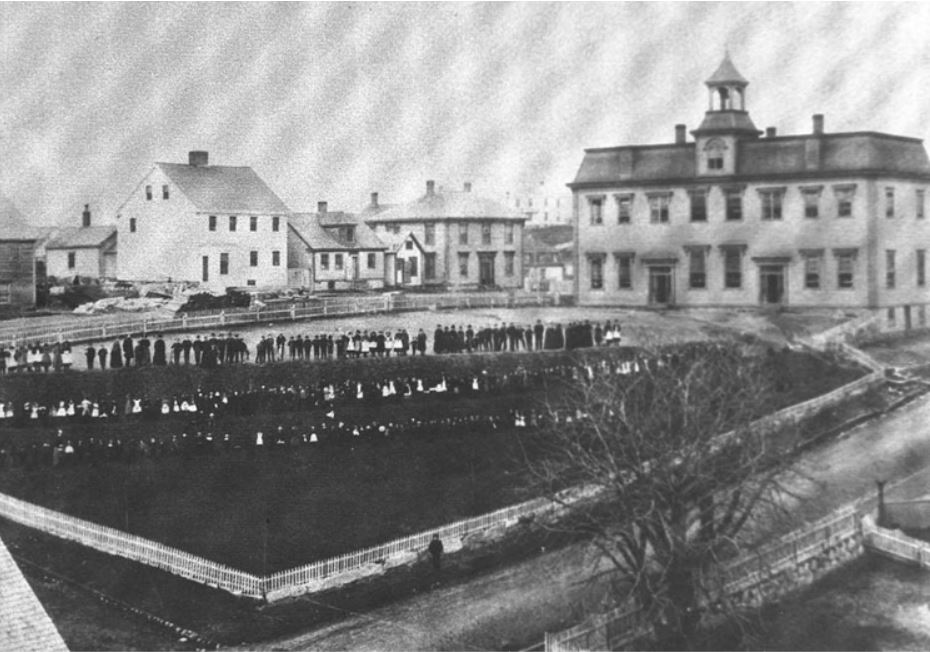 The academy in Lunenburg, Nova Scotia which burnt down in 1893. Was replaced by what is now the Lunenburg Academy National Historic Site of Canada. Photo taken c. 1881 COPYRIGHT NOTE: Photographer died in 1925 per Mahone Bay Museum website